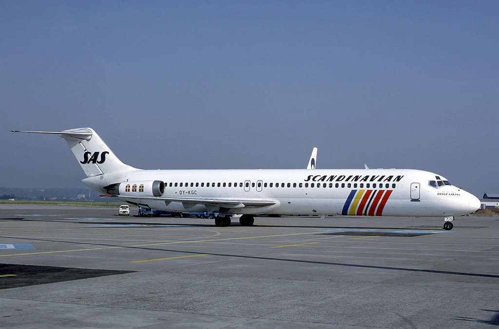 Scandinavian Airlines System Douglas DC-9-41 OY-KGC at Euroairport (Basel, Muelhouse, Freiburg)